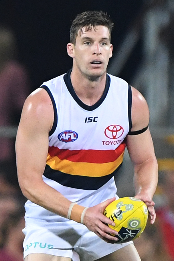 Josh Jenkins of Adelaide during the 2019 AFL round 11 match between Melbourne and Adelaide at TIO Stadium on Saturday, 1 June 2019 in Darwin, Northern Territory.